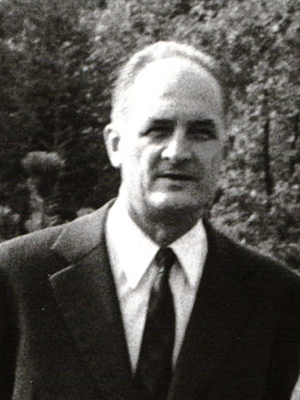 Inventory number: 1975_593_076 Инвентарски број: 1975_593_076